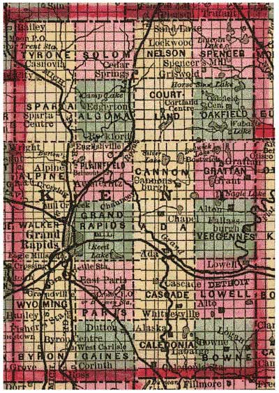 1885 Kent County Michigan USA map illustrating township-section system Includes towns, townships, lakes, etc.